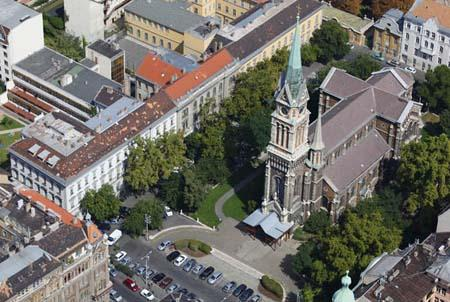 Bakáts square, Ferencváros Budapest, Hungary, aerial photography